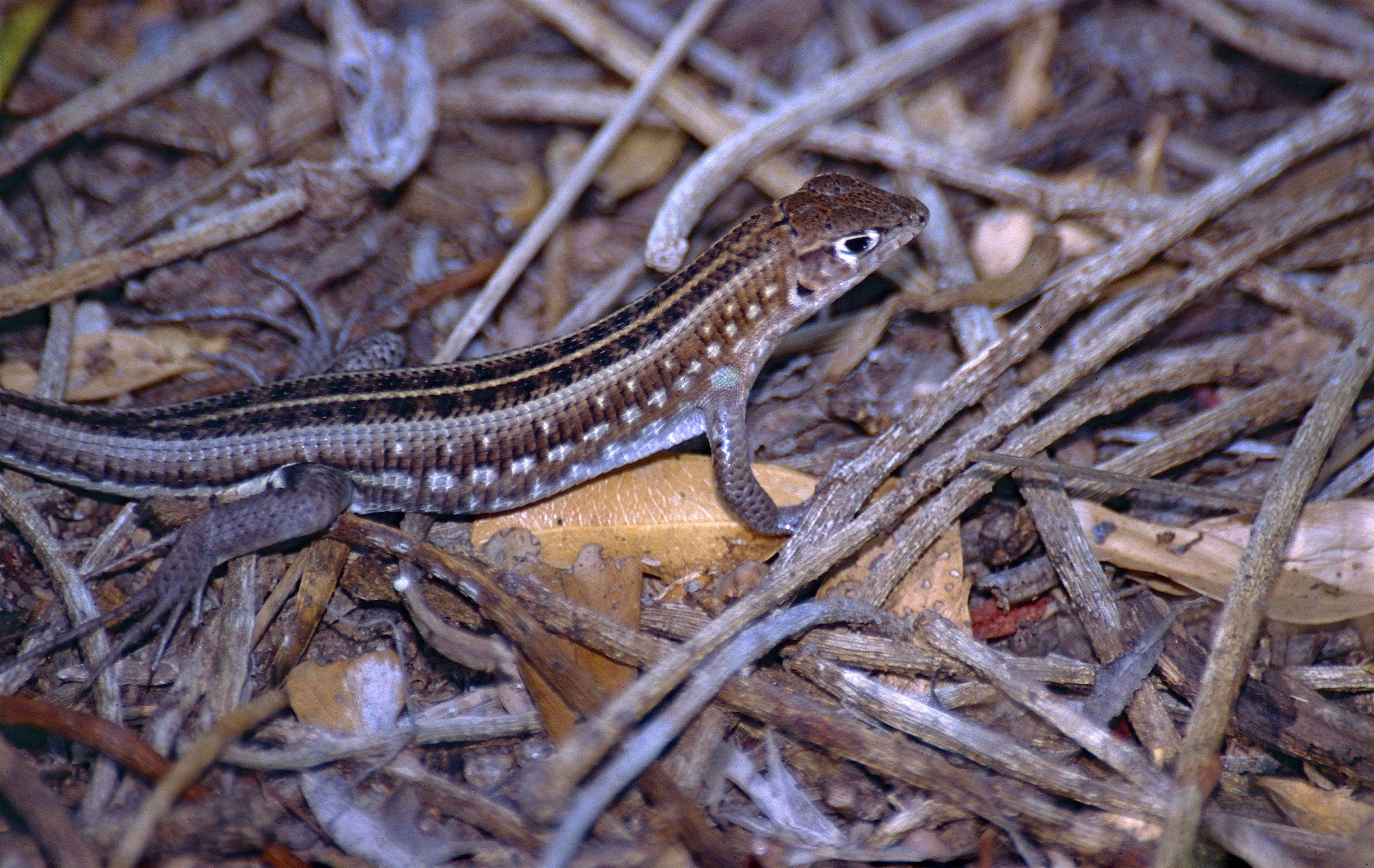 Réserve de Berenty, Amboasary Sud, MADAGASCAR Scanned Slide from 1998